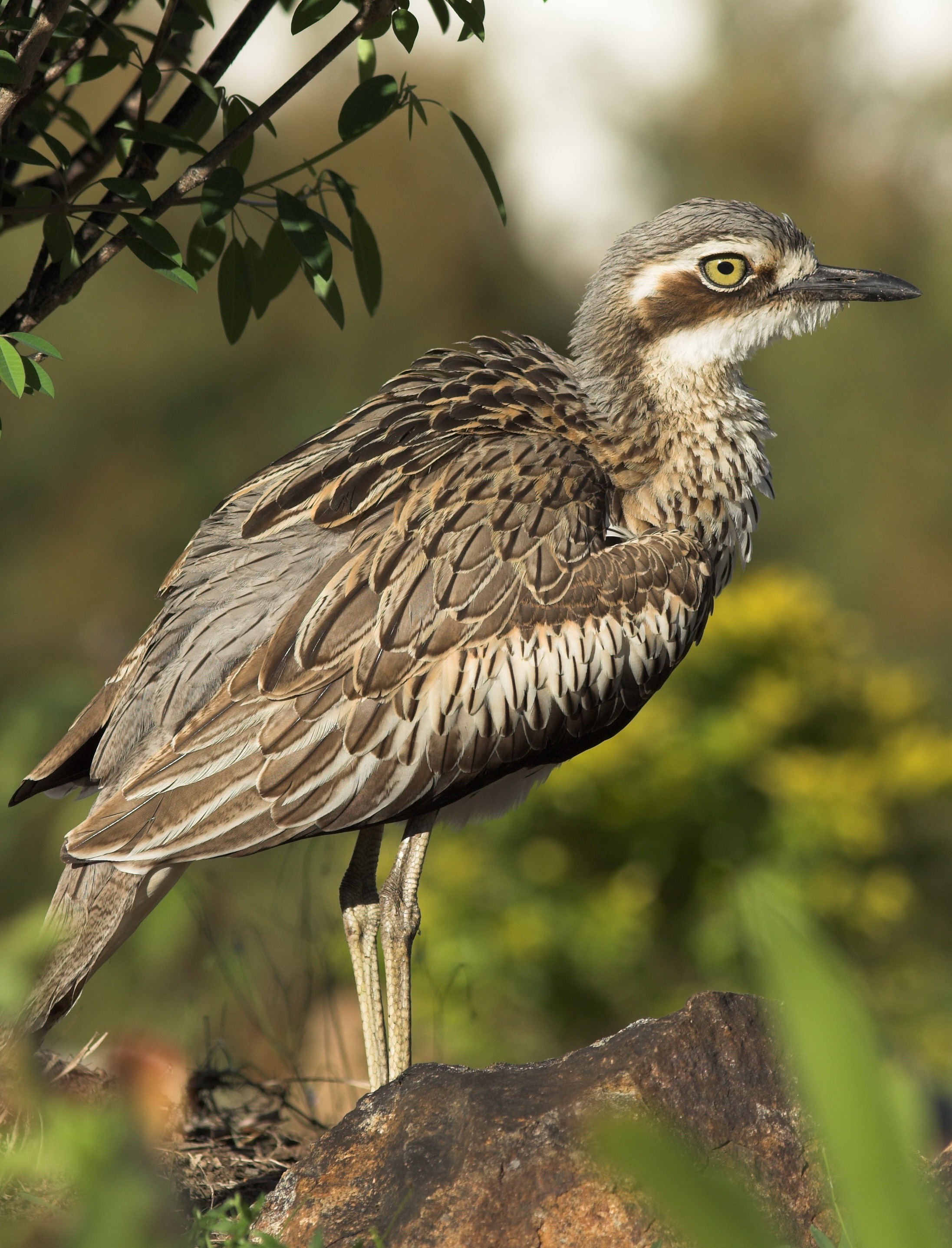 Bush Stone-curlew, Burhinus grallarius; wild bird